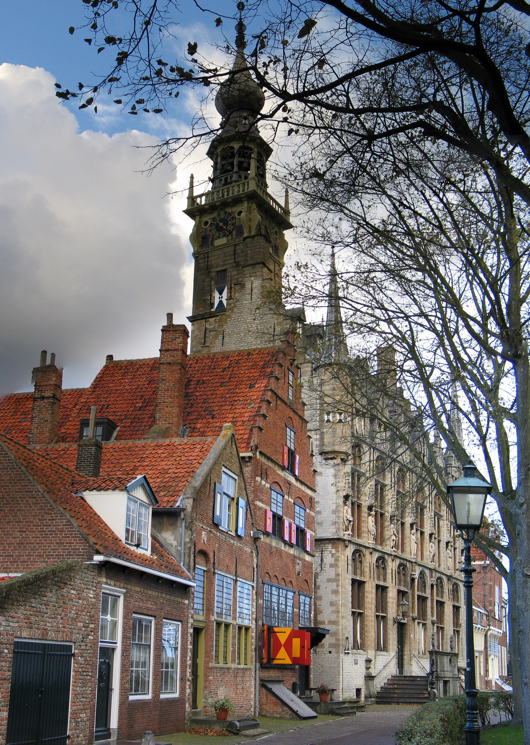 Townhall in Veere, Holland